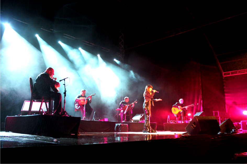 Feira de Artesanato, Gastronomia e Vinho Verde - Ana Moura